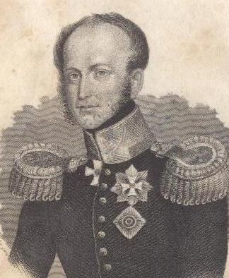 William II of the Netherlands